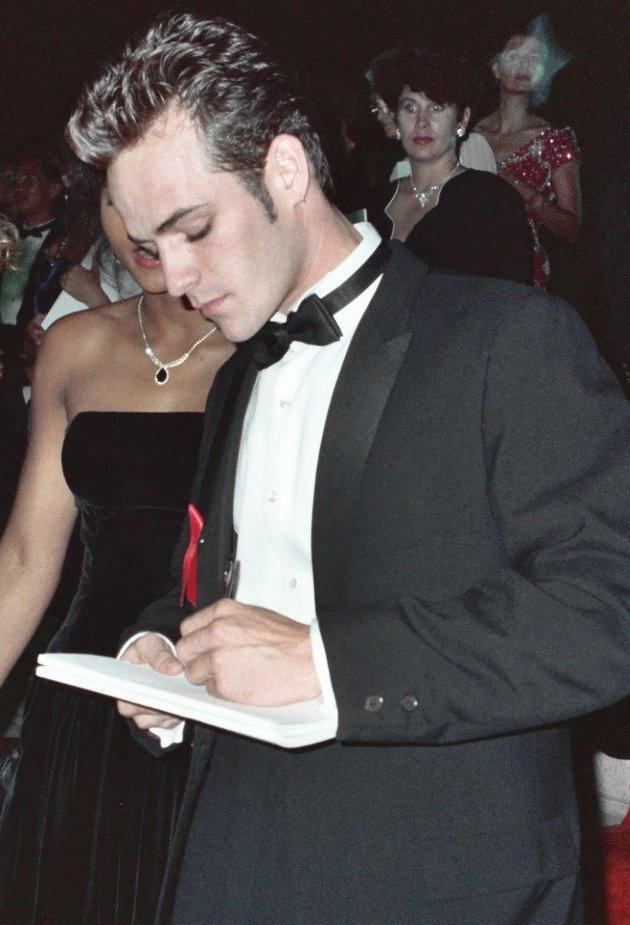 Luke Perry signs an autograph at the 1991 Emmy Awards. NOTE: Permission granted to copy, publish, broadcast or post any of my photos, but please credit "photo by Alan Light" if you can. Thanks. Scanned from the original 35MM film negative.